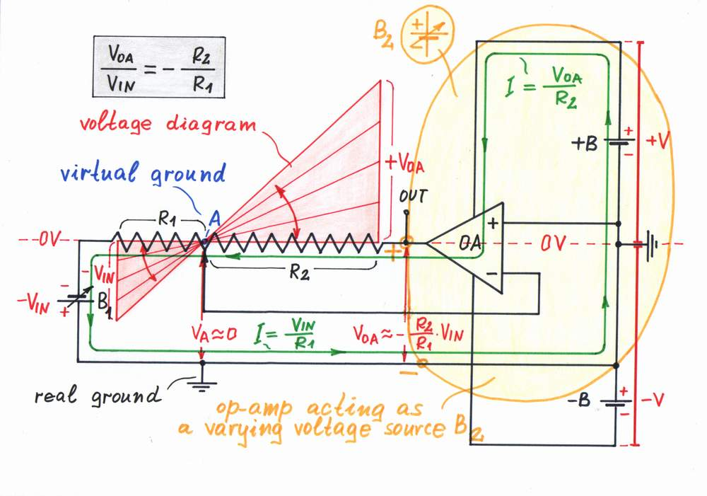 Voltage diagram of op-amp inverting amplifier